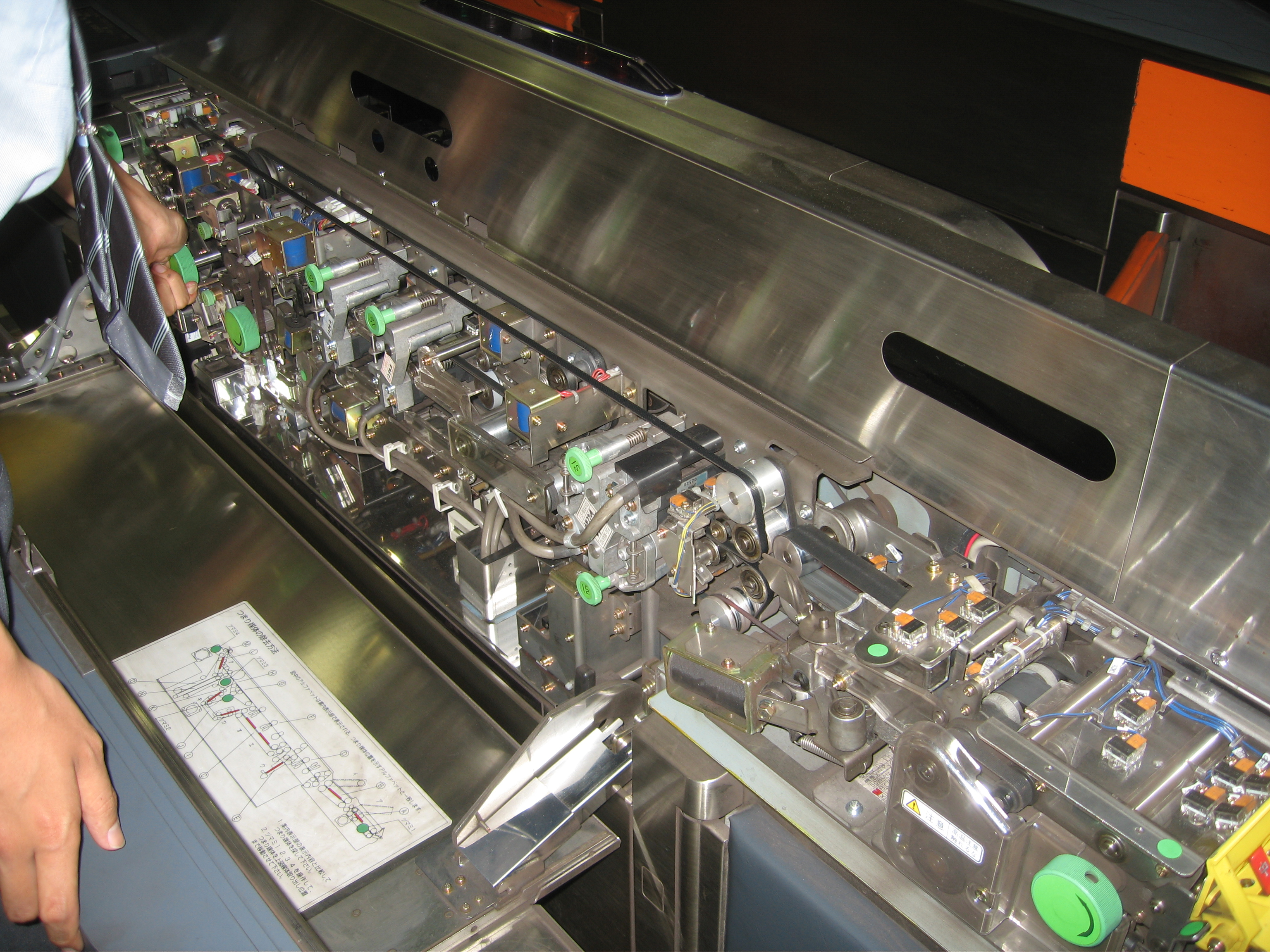 The intenals of a train ticket machine in Japan